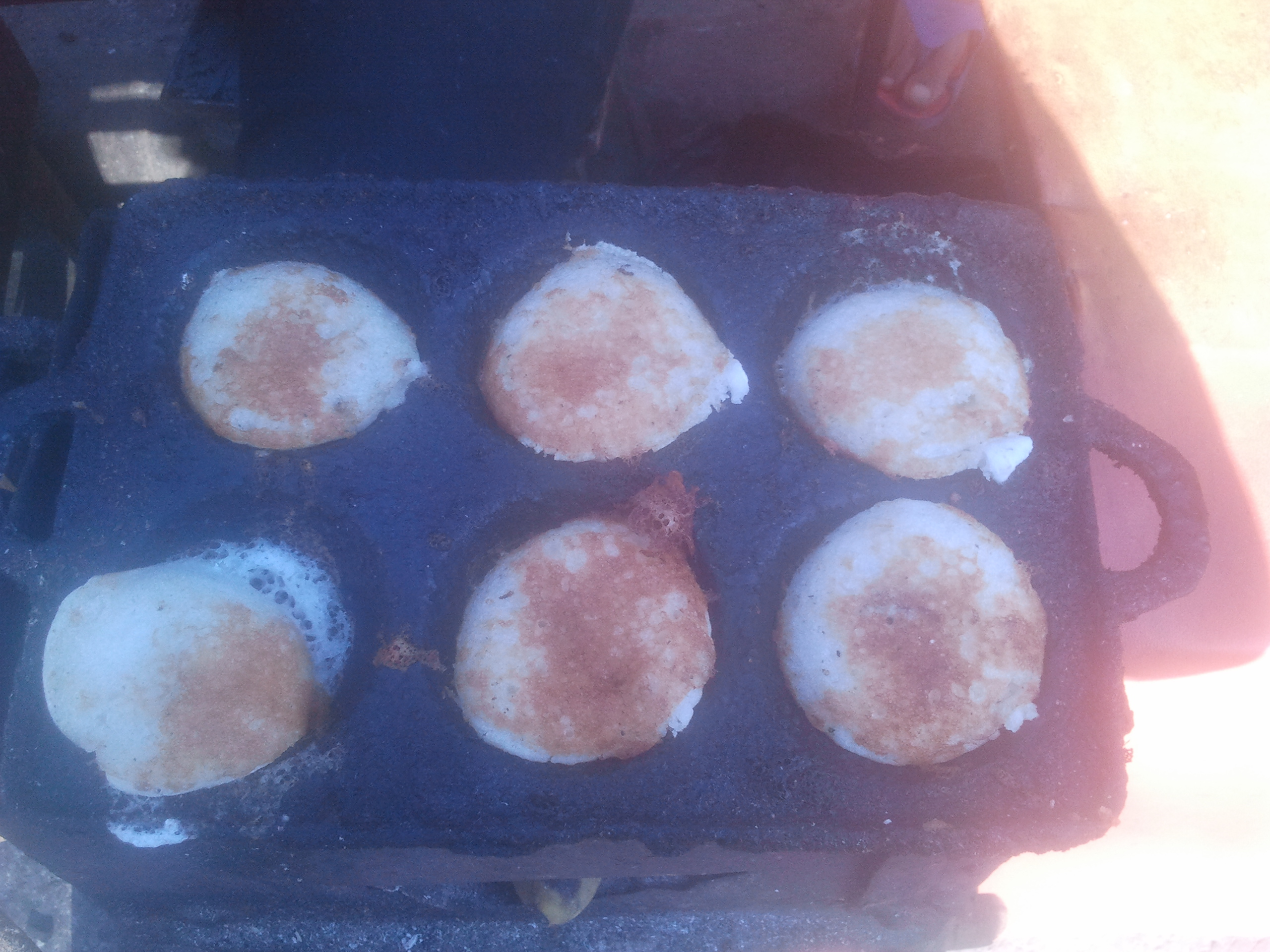 mitovy